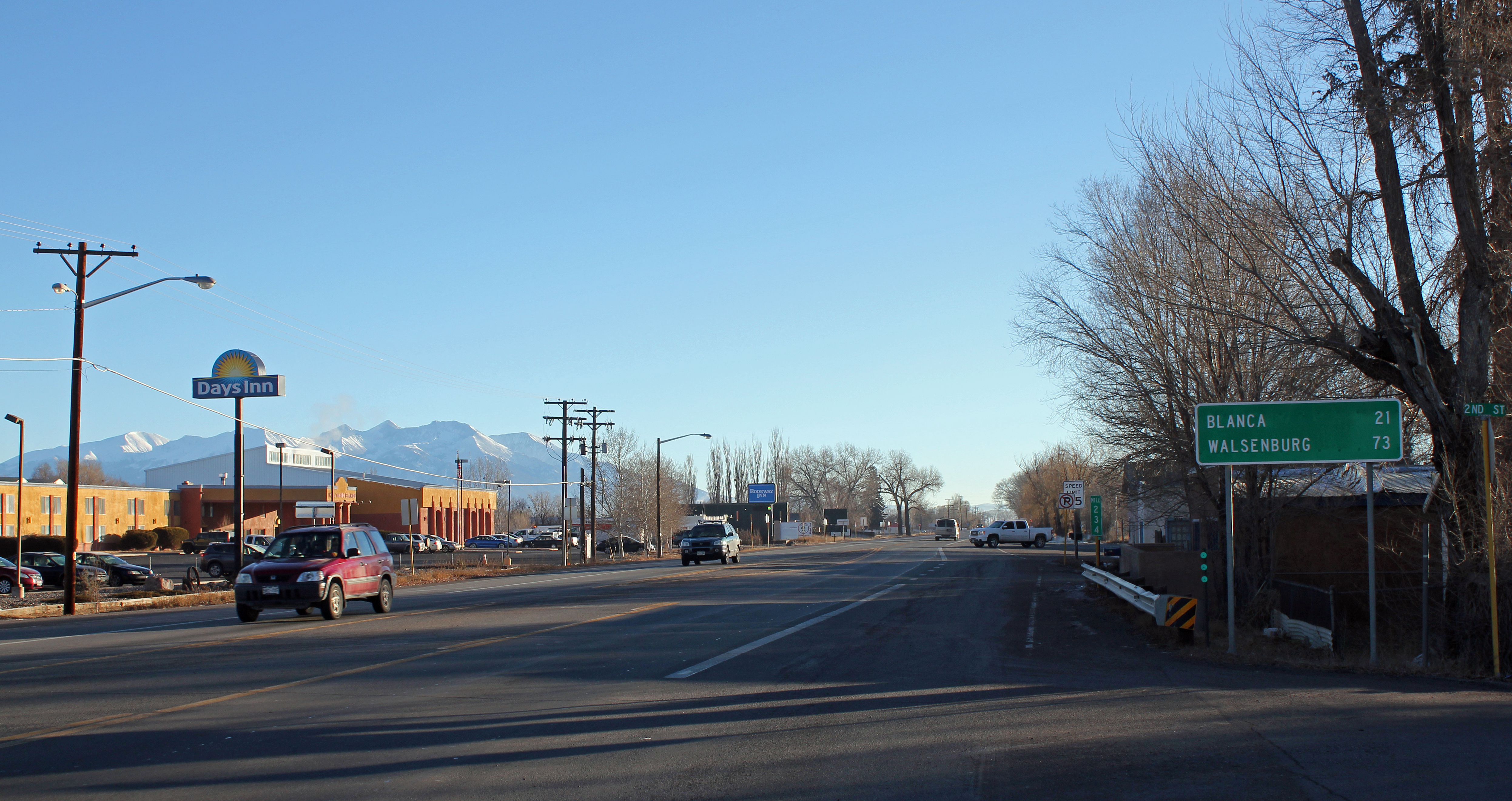 Alamosa East, Colorado, an unincorporated community in Alamosa County, Colorado. The view is looking east from the intersection of U.S. 160 (Santa Fe Avenue) and 2nd Street.